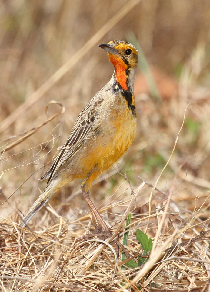 Cape Longclaw or Orange-throated Longclaw, Macronyx capensis at Rietvlei Nature Reserve, South Africa